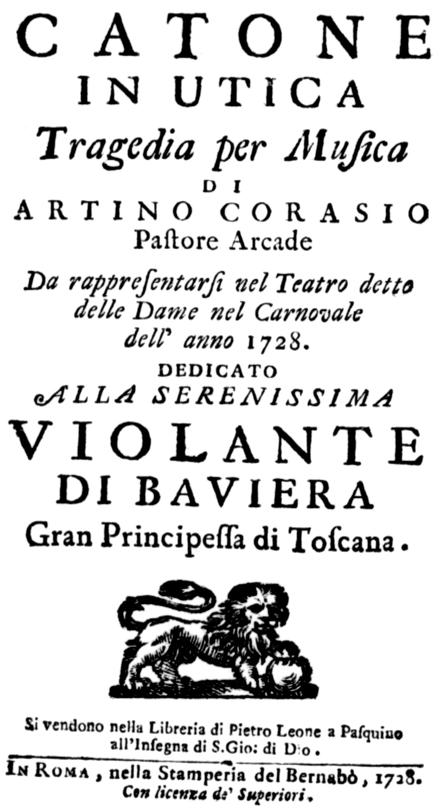 Leonardo Vinci - Catone in Utica - titlepage of the libretto - Rome 1728